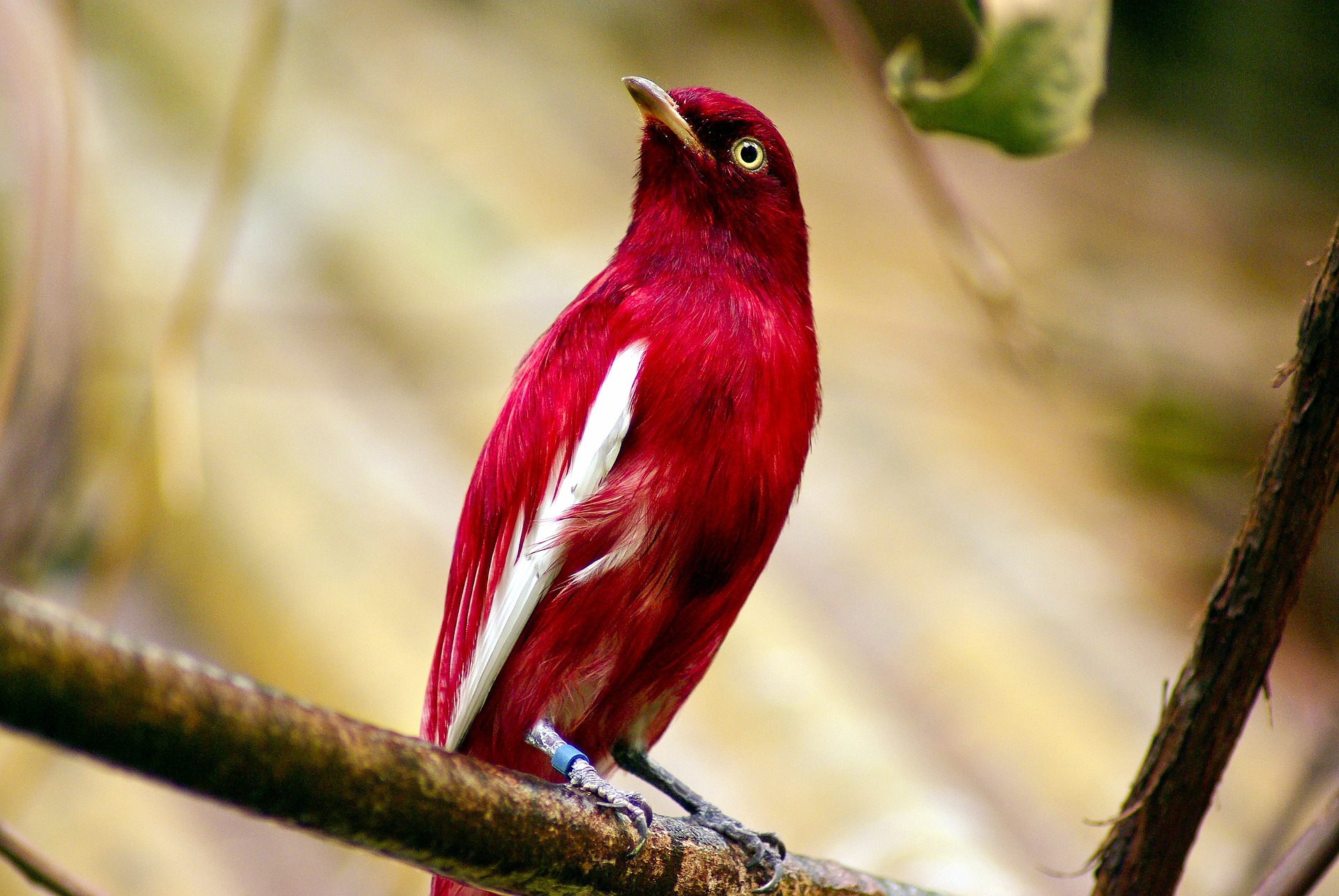 Male perched pompadour cotinga